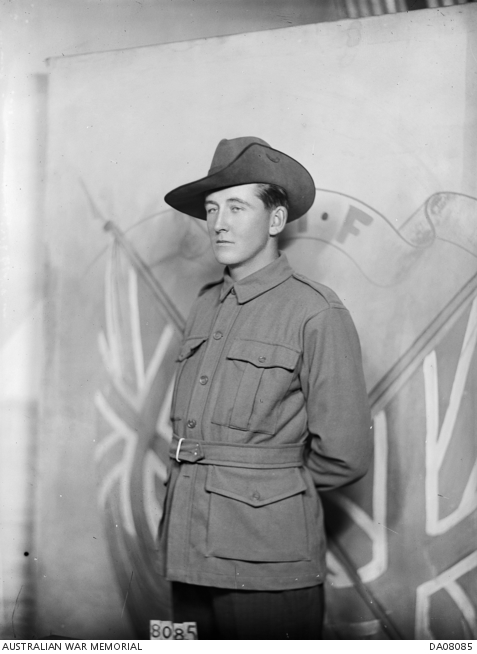 Portrait of Andrew Buxton Brittlebank, 59th Australian Infantry Battalion. Died 15 October 1917 in Belgium. From the collection of the National Archives of Australia